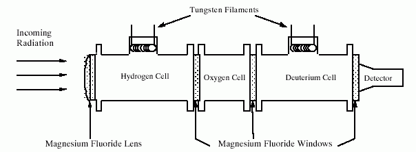 HDAC instrument for Cassini